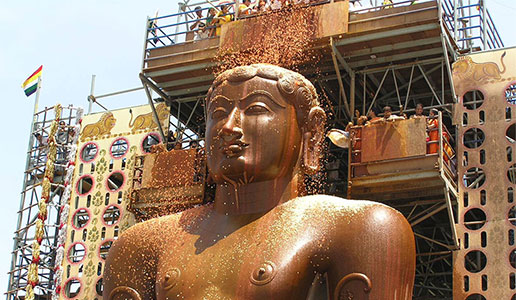 Mahamastakabhisheka in 2006 in Shravanbelagola